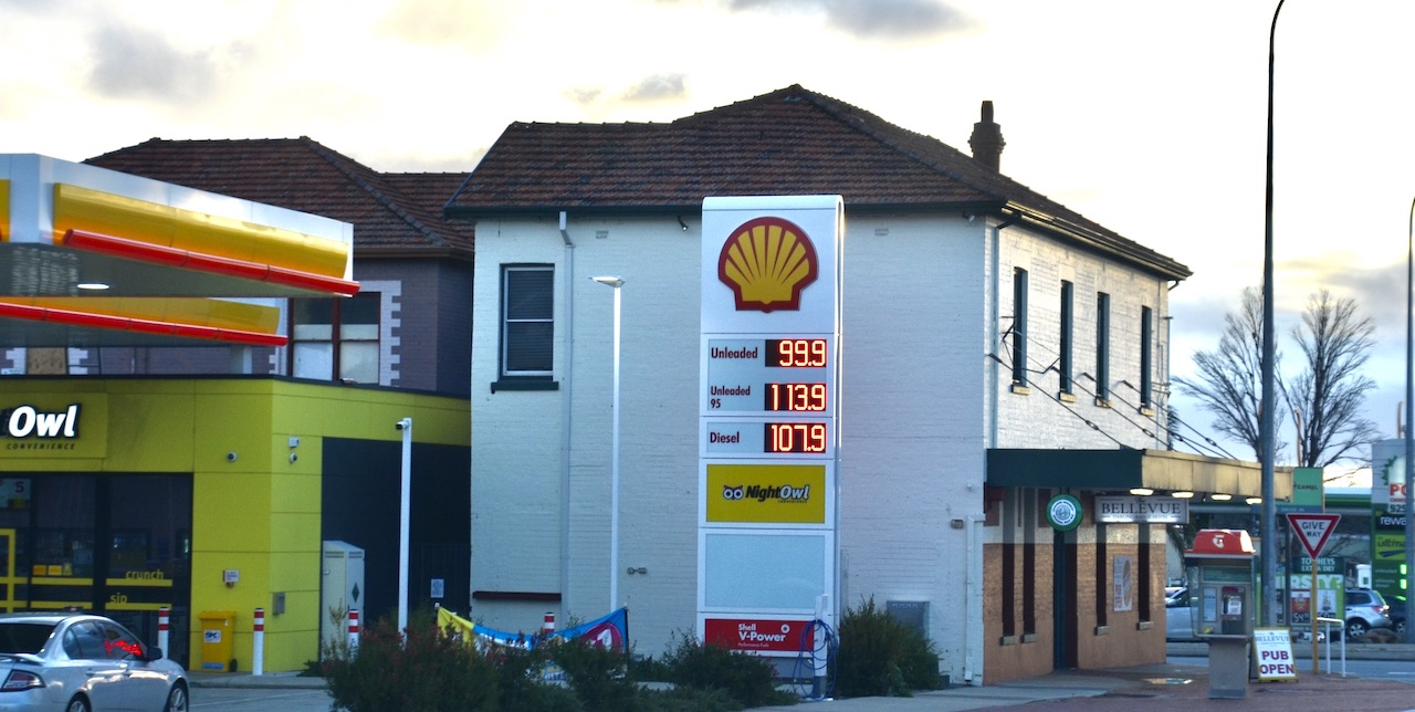 The Bellevue Darling Range Hotel (formerly Darling Range Hotel) late afternoon